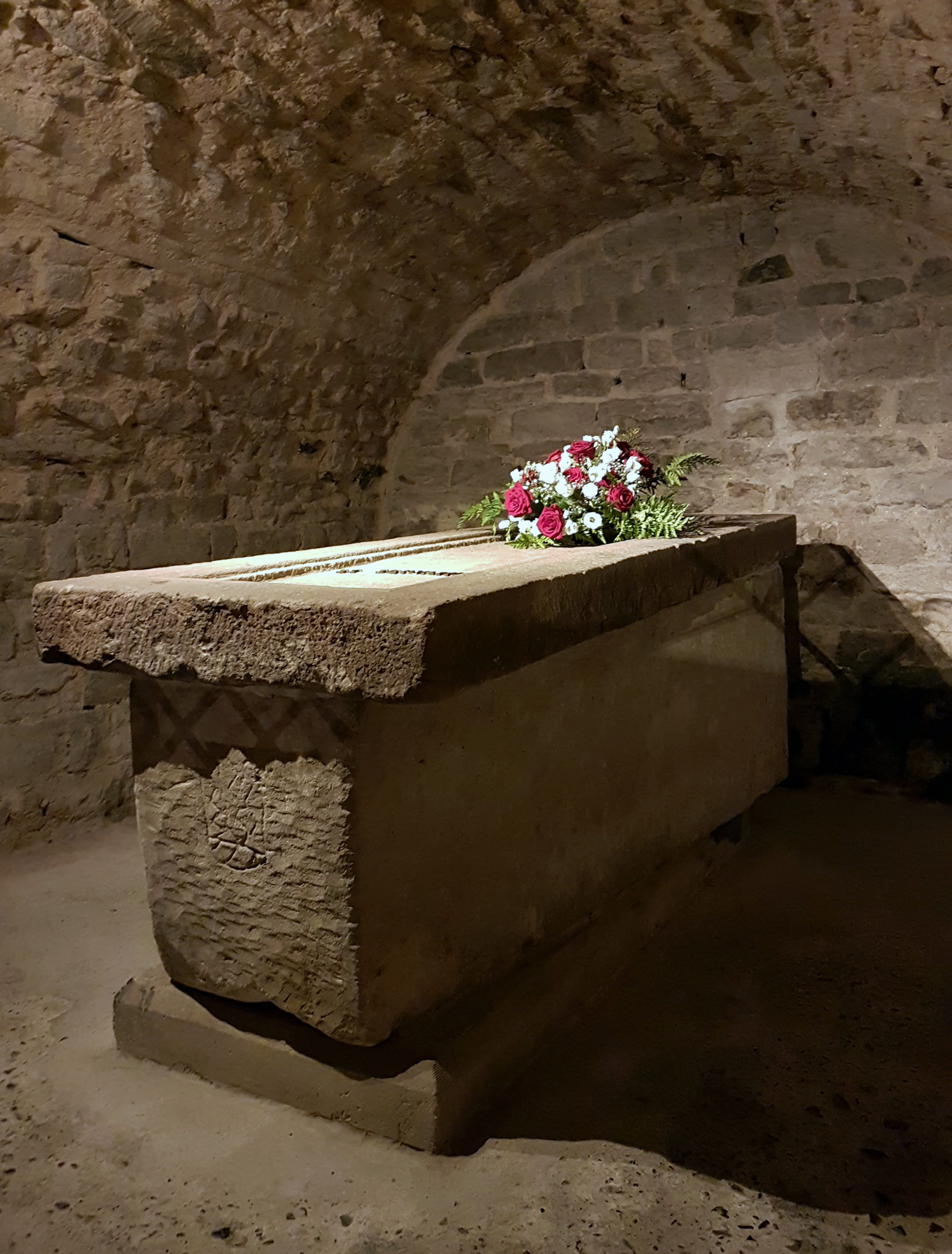 View of the so-called sarcophagus of Saint Servatius in the crypt of the Basilica of Saint Servatius in Maastricht, Netherlands. The picture was taken through the wrought iron gate separating the so-called small crypt from the crypt of Saint Servatius. The sarcophagus is Frankish and was placed here at some point in the 20th century. It is unlikely to have anything to do with Saint Servatius, who died in the late 4th century. Normally, the small crypt cannot be accessed but at this special occasion, the 2018 Heiligdomsvaart ("Relics Pilgrimage"), it is open for pilgrims to visit. The history of the Heiligdomsvaart goes back to the Middle Ages. The first 'modern' version of this seven-yearly, ten-day catholic pilgrimage took place in 1874. The 2018 Heiligdomsvaart was the 55th modern edition.